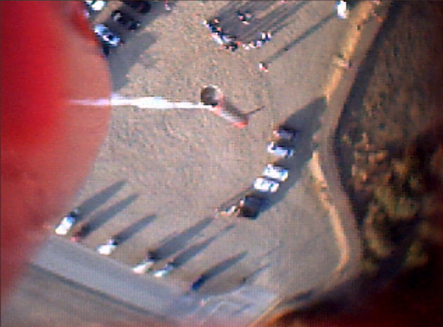 Author: jurvetson URL: Description: Oracle model rocket parachuting back to Earth. Licensing